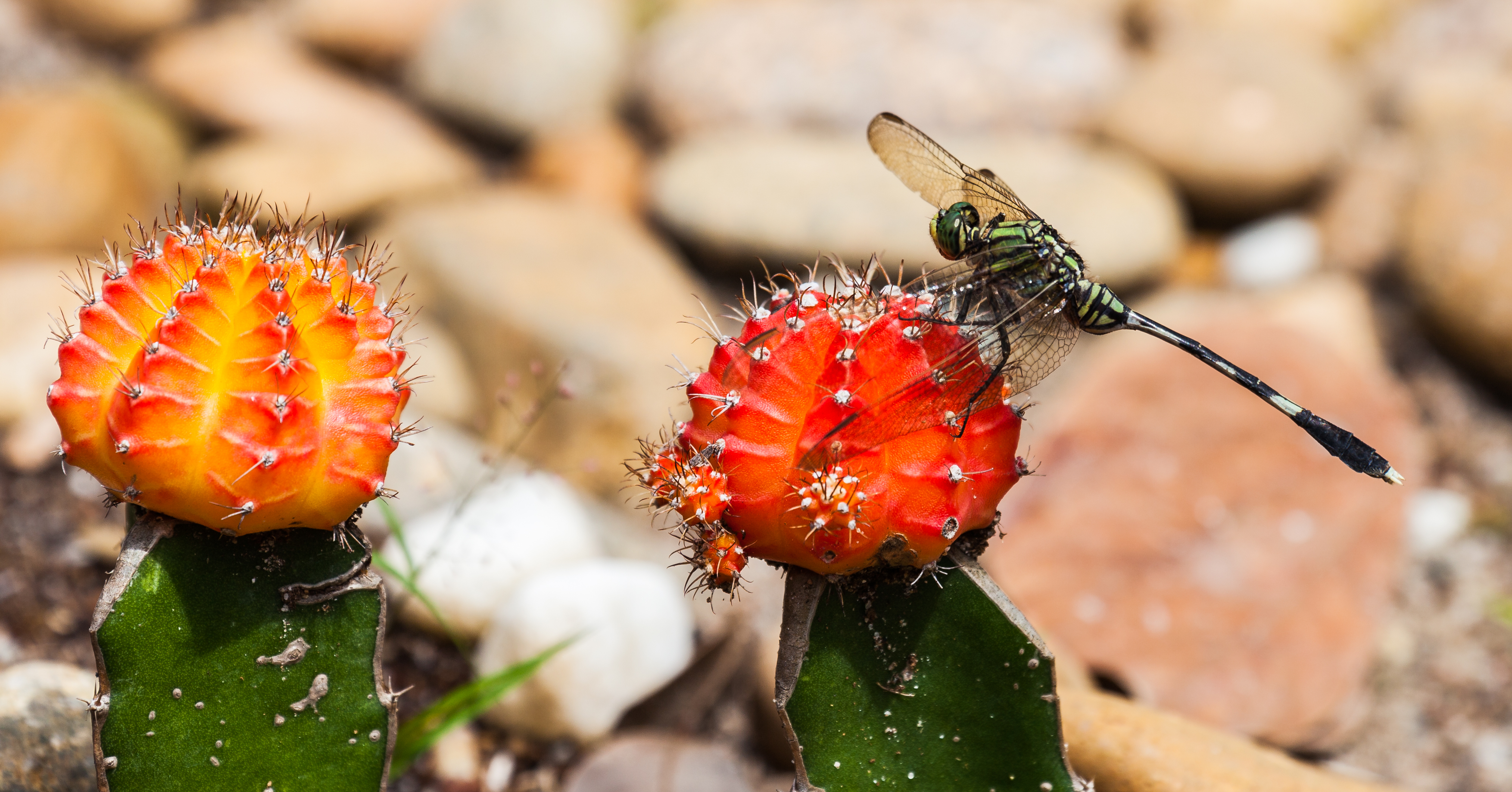 A Slender Skimmer, also called Green Marsh Hawk (Orthetrum sabina), a dragonfly species, on a Gymnocalycium mihanovichii in Ho Chi Minh City.